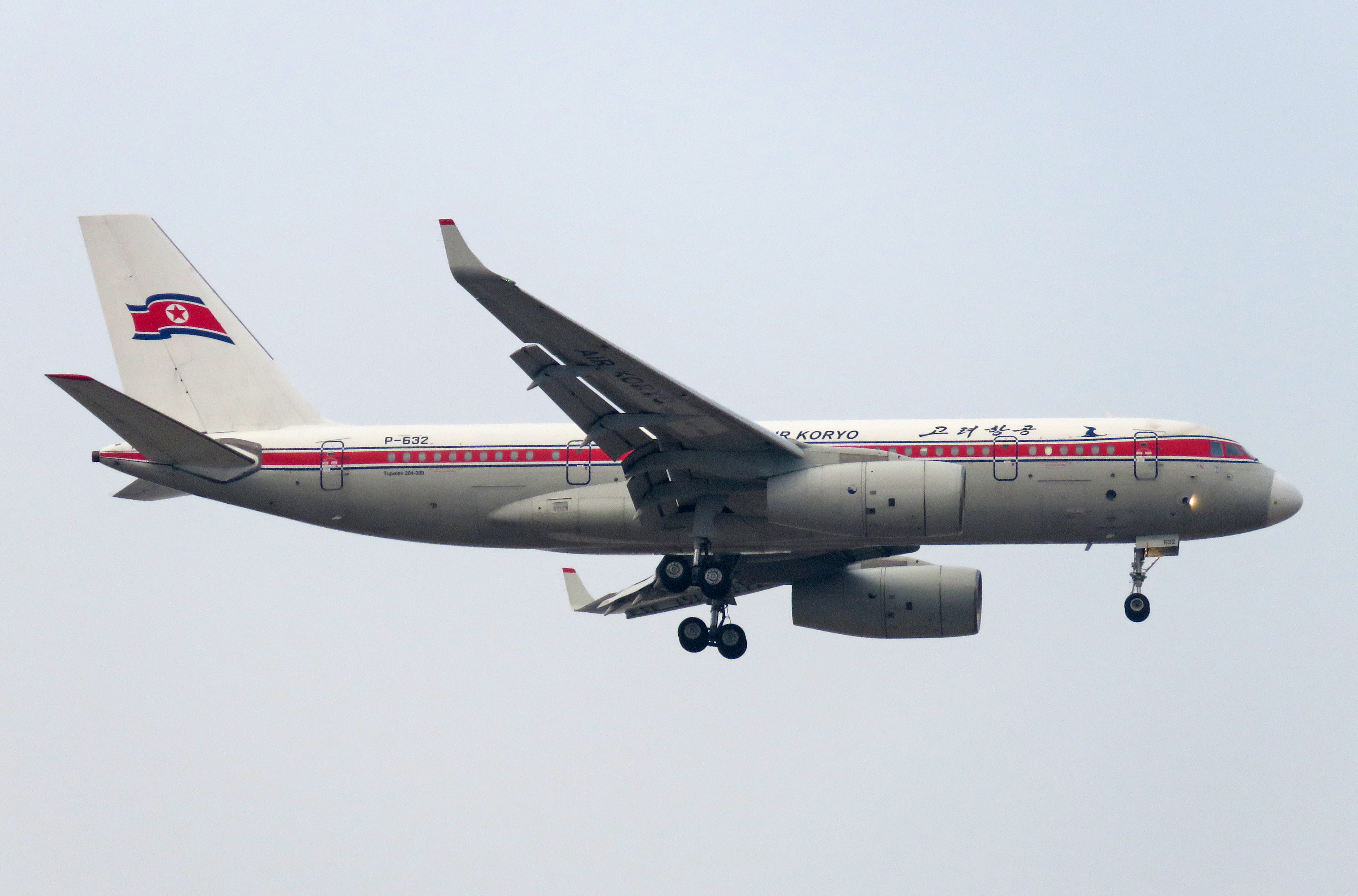 Air Koryo 151 from Pyongyang. D-ABYT landed 36R, but this one didn't - still 01. This North Korean "757sky" was soon followed by an Asiana A321 from South Korea.